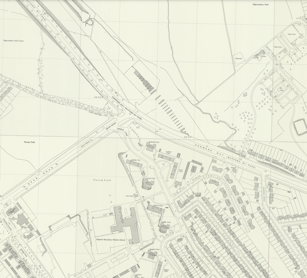 Brockley Hill tube station was one of the planned stations on the extension of the London Underground's Northern line from Edgware to Bushey Heath. Works to construct a viaduct on which the station would be located began in the late 1930s, but were postponed during World War II. After the war, the area was designated as part of the Metropolitan Green Belt around London, meaning that the residential development the station was meant to encourage could not take place. The extension was cancelled, with parts of the arches of the viaduct left in place.